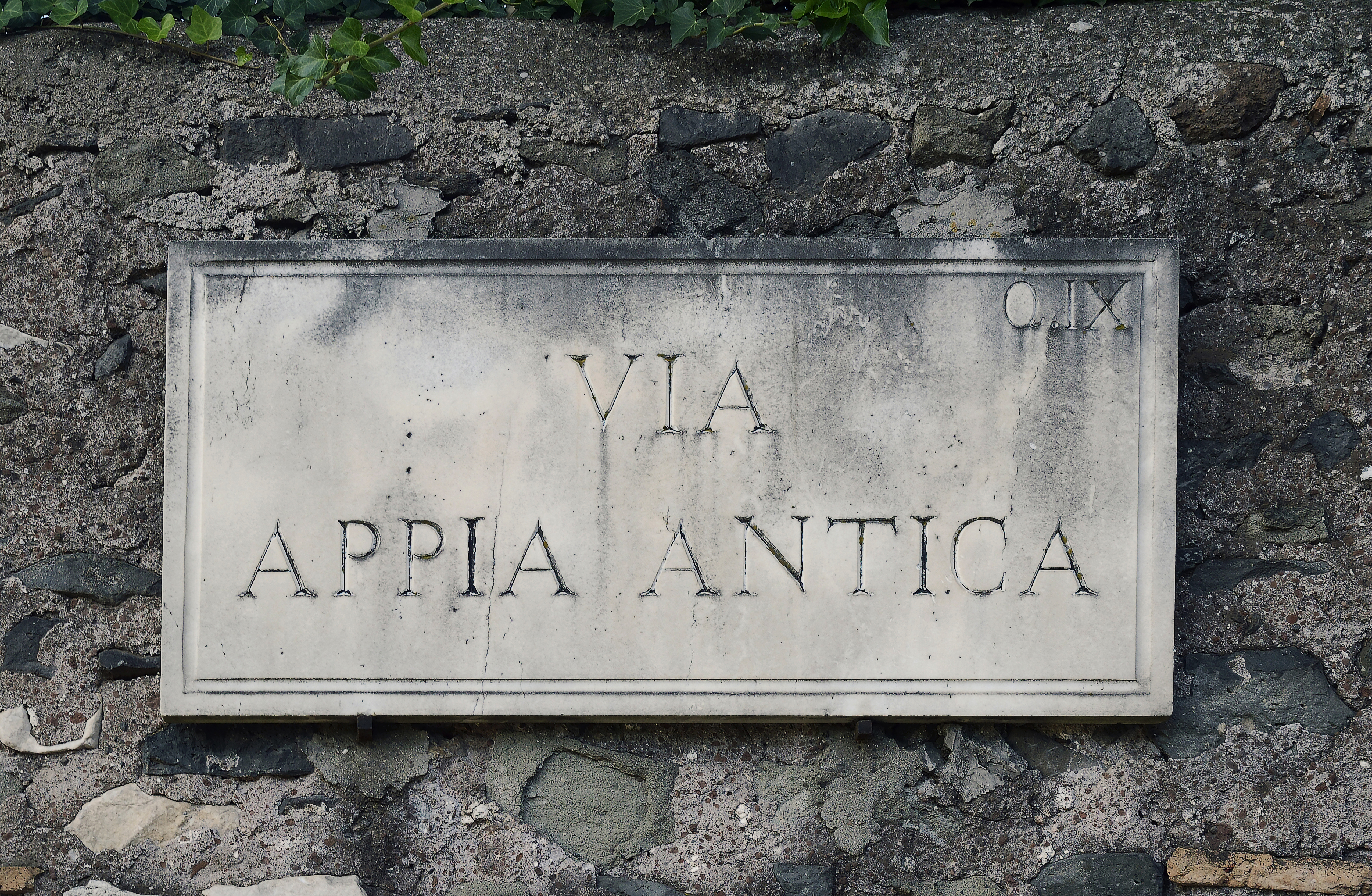 Appia Antica plate